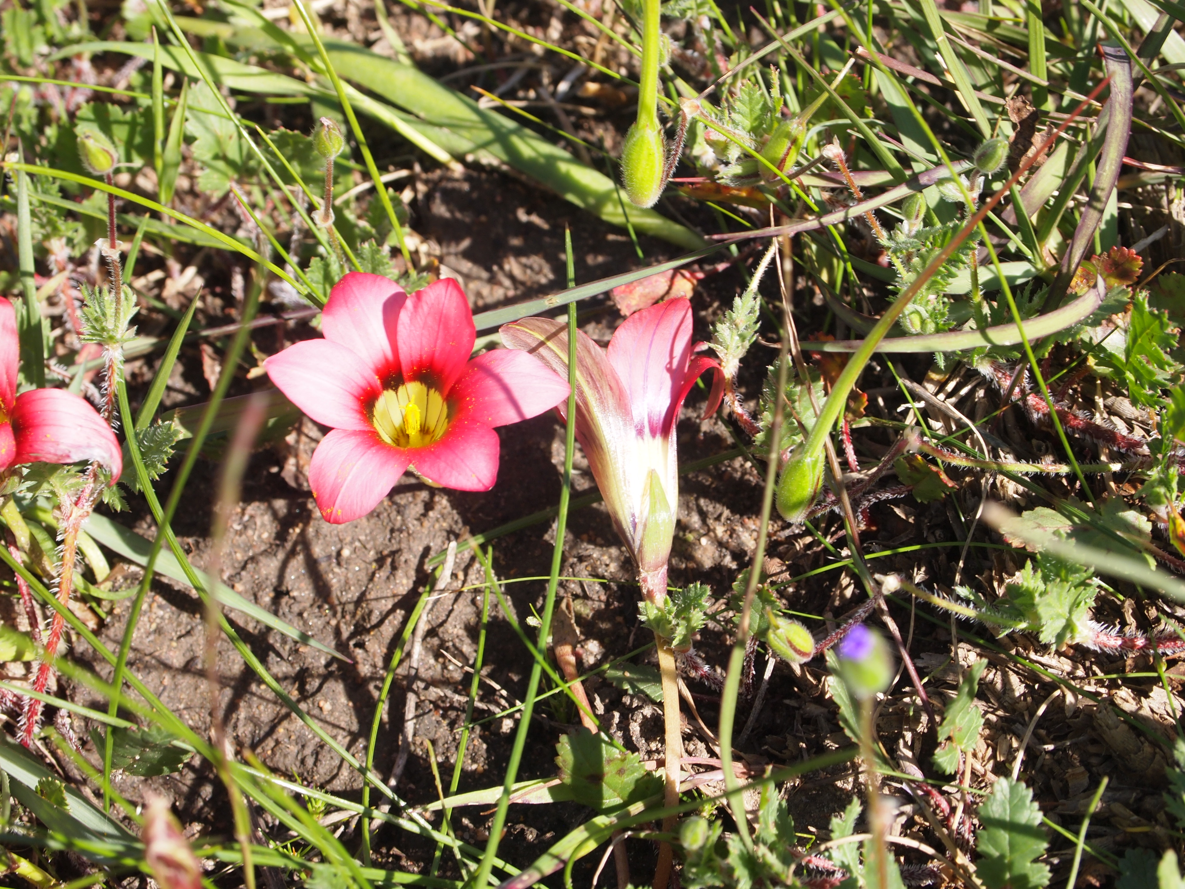 Darling Western Cape